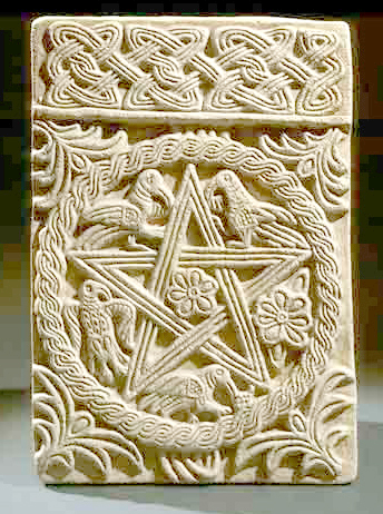 Split, Croatia. Ancient Roman temples.